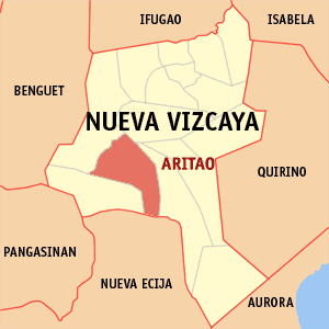 Map of Nueva Vizcaya showing the location of Aritao